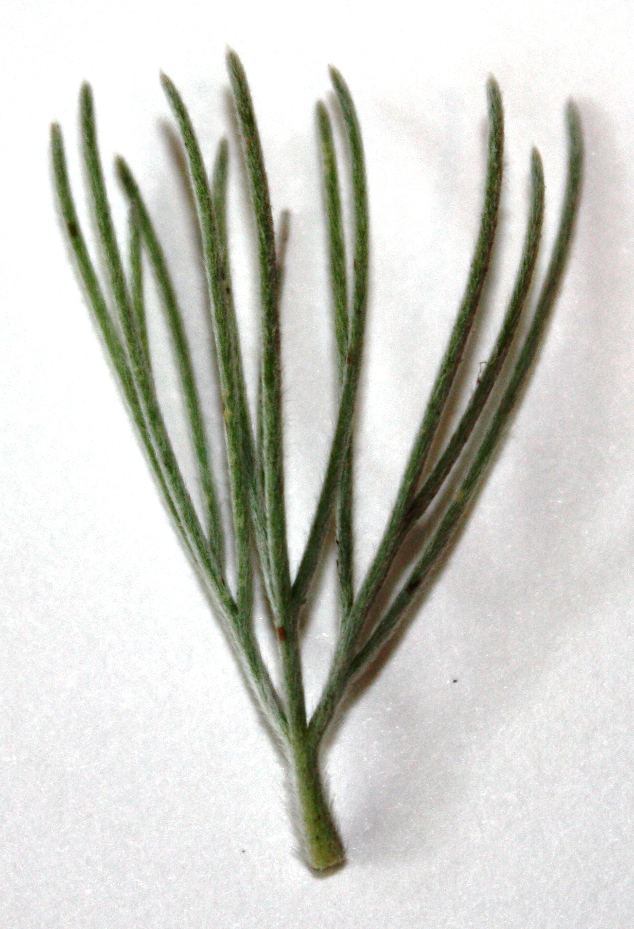 A single leaf of Adenanthos sericeus. It is trisegmented into long thin lacineae. This particular leaf was about 25 mm (1 in) long.